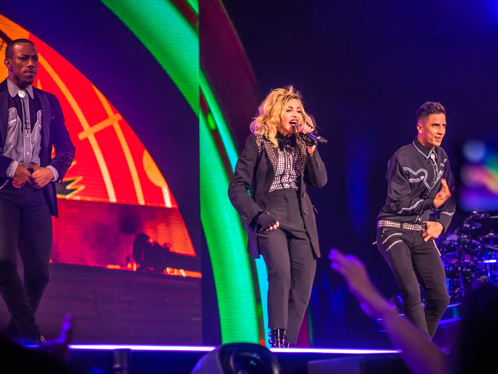 Rebel Heart Tour